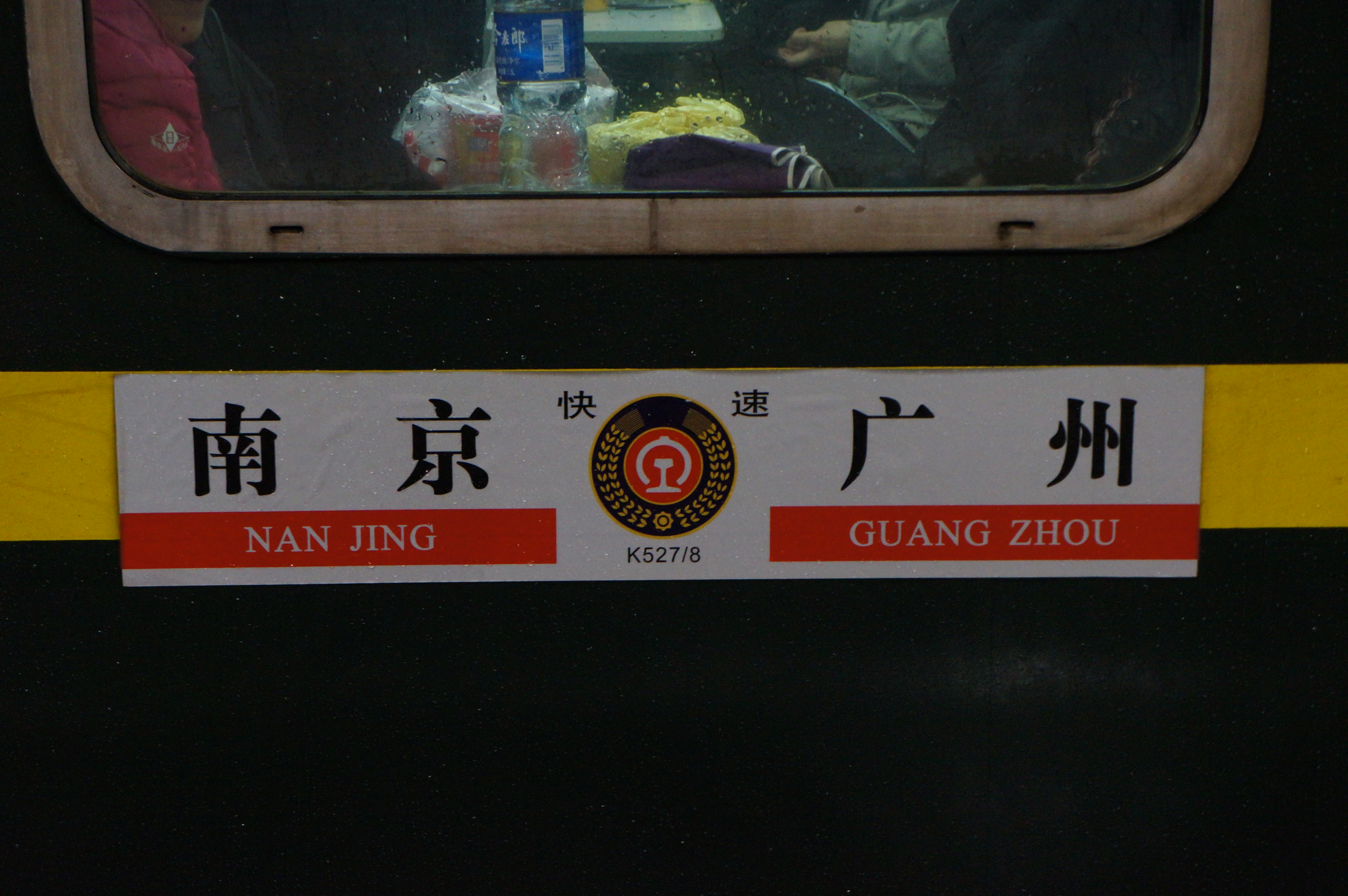 K527 528 infoboard in 201901